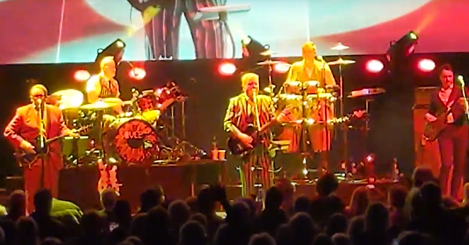 A picture of a 2020 performance by the new wave band, Squeeze. Frontmen Glenn Tilbrook and Chris Difford are pictured in front.